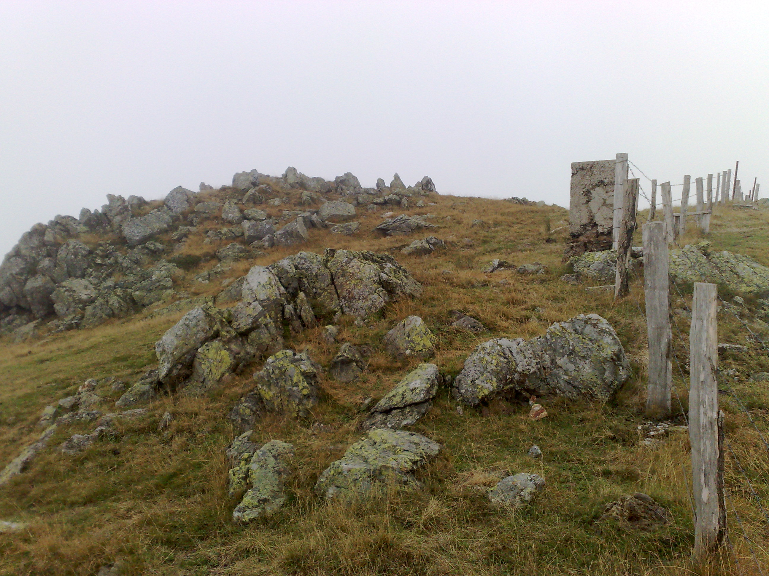 Top of mt. Argarai (1226 m). The fence marks the border between Banka (fr Banca, Lower Navarre) and Luzaide (es Valcarlos, Higher Navarre) so between the states of Spain and France. Basque Country.